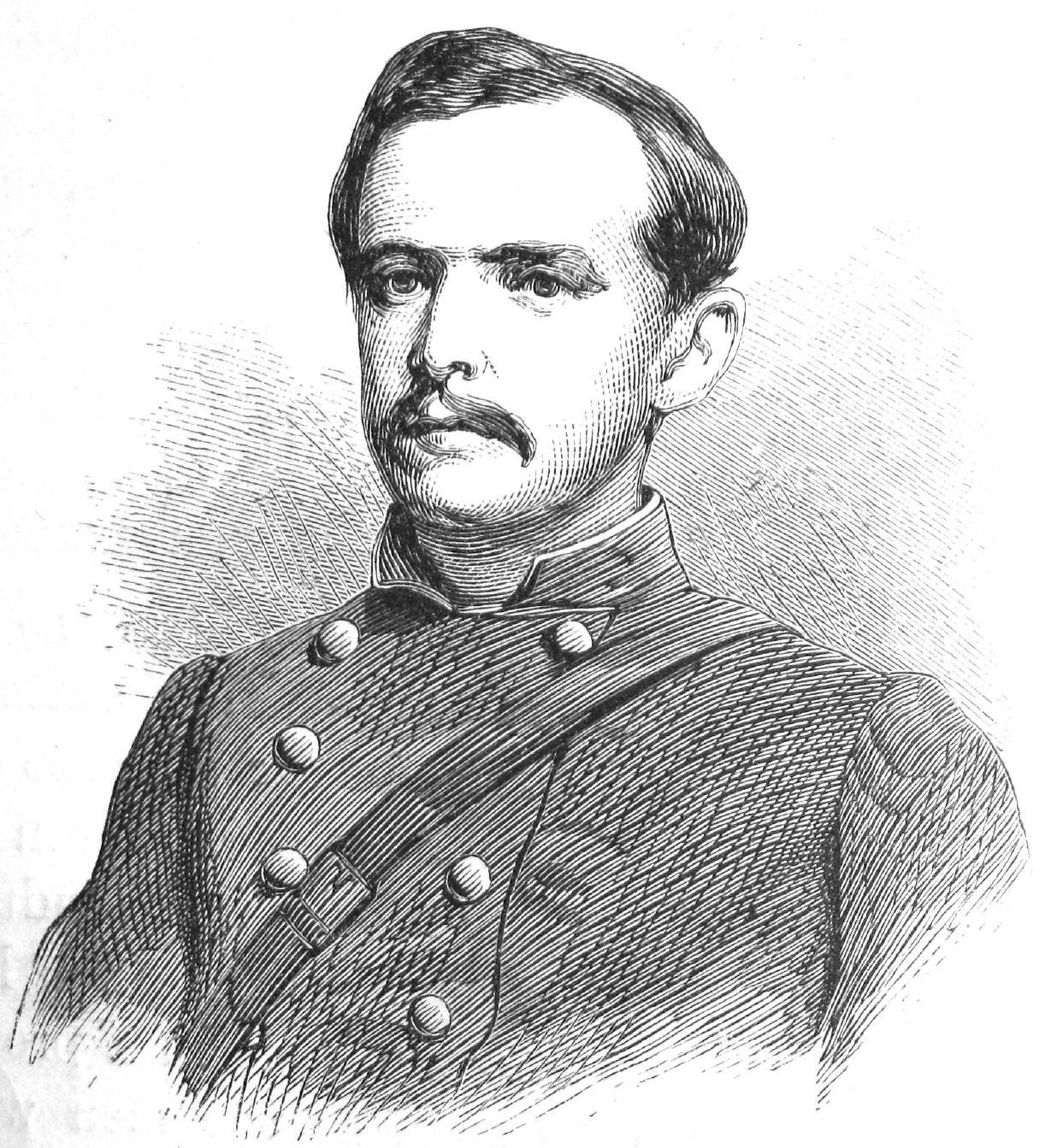 Wood engraving of Capt. Richard Paul Montjoy (1842-1864) of Company D, 43rd Battalion Virginia Cavalry, known as Mosby's Rangers. From Major John Scott. Partisan Life with Col. John S. Mosby. New York: Harper & Bros. Publishers, 1867, page 210.